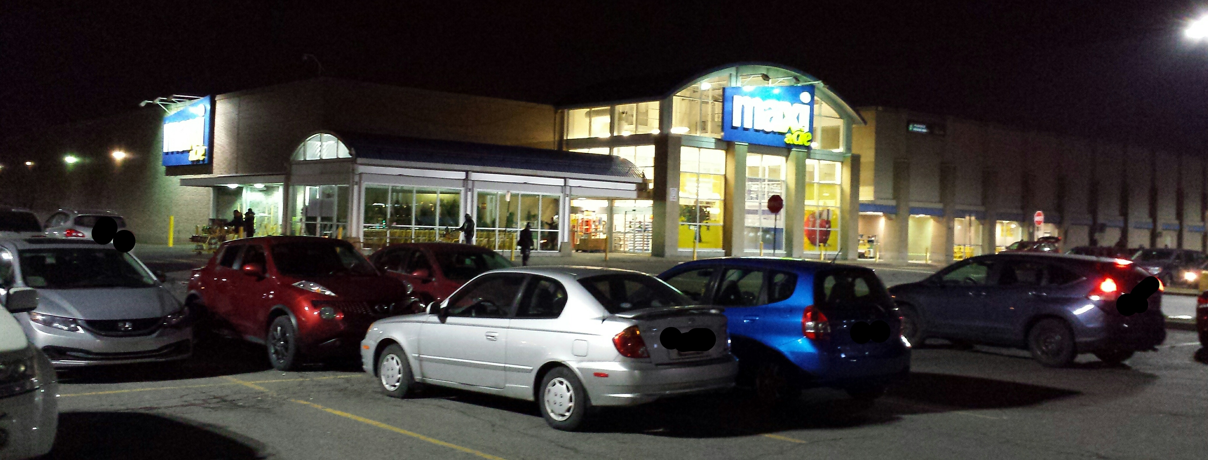 The first Maxi & Cie store plus a 2003-2006 Hyundai Accent photographed in Montréal , Québec, Canada.